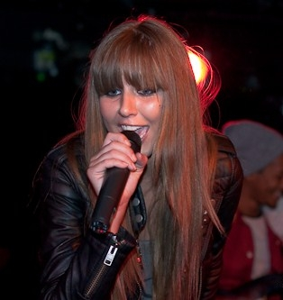 Esmée Denters performing live at El Corazon on 10/21/2009. Cropped, re-sized to center on main subject.